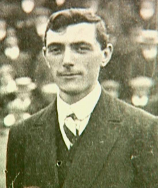 Fred Everiss, West Bromwich Albion F.C. football (soccer) secretary-manager 1902–1948. Born 1882.